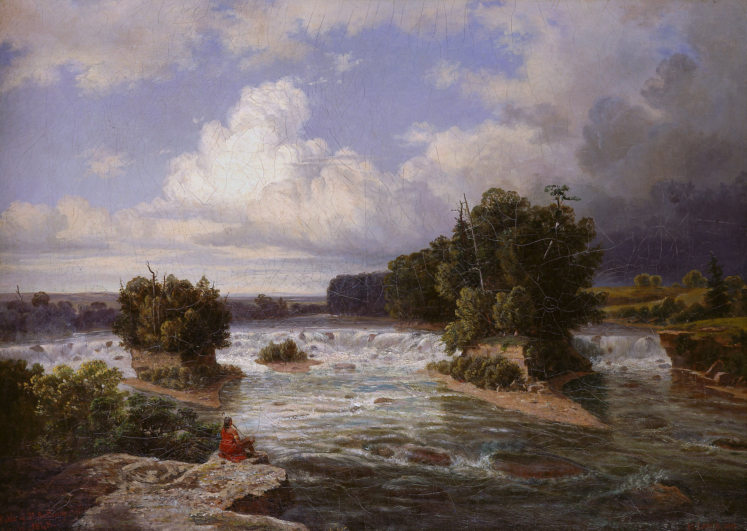 Landscape.